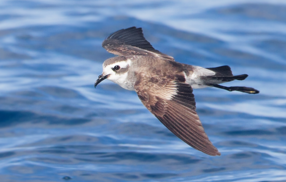 White-faced Storm Petrel (Pelagodroma marina) in flight, East of the Tasman Peninsula, Tasmania, Australia